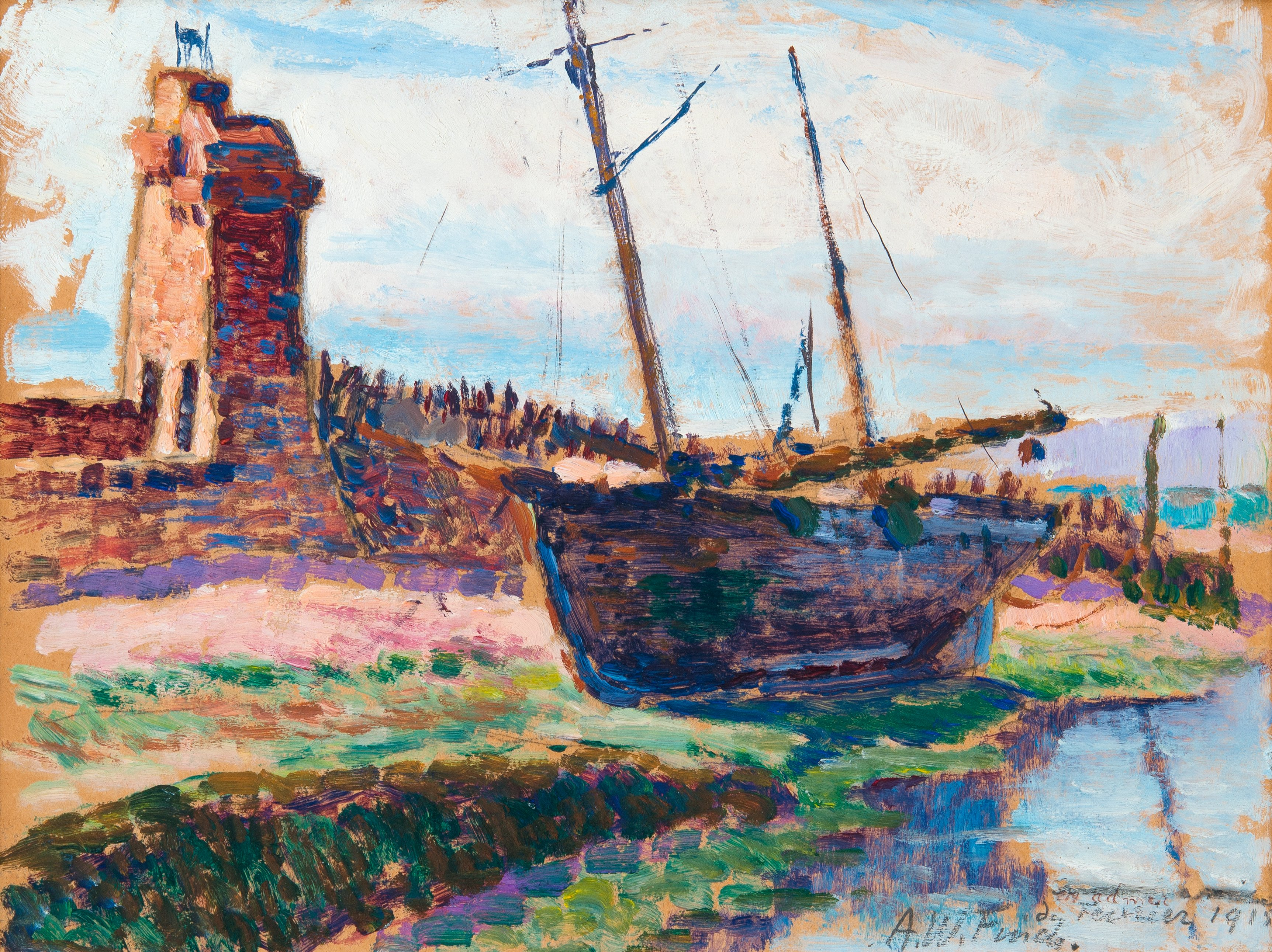 Alfred William Finch: By the shore, 1915. Oil on board 26x36 cm.